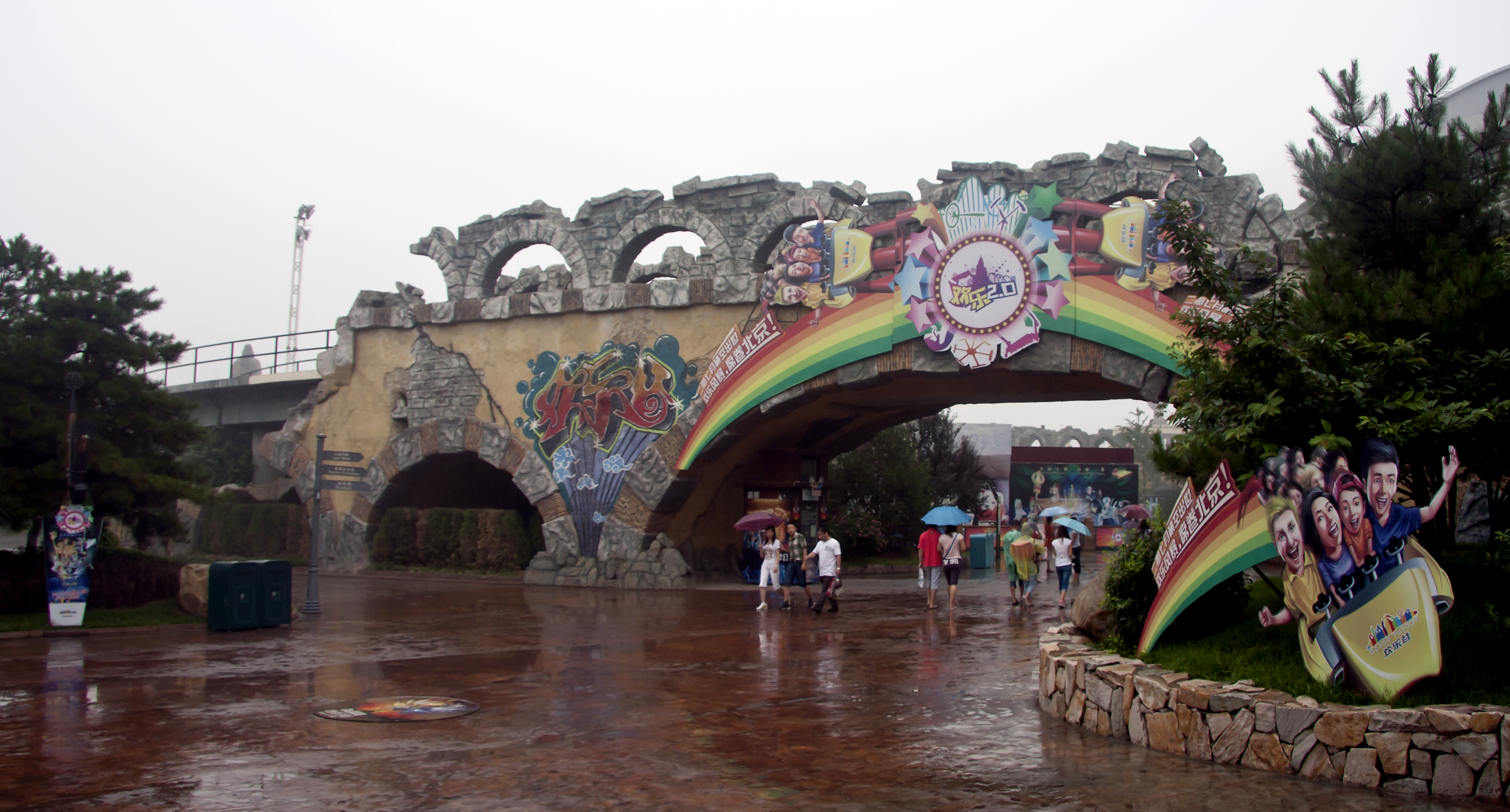 Happy Valley theme park in Beijing, China.